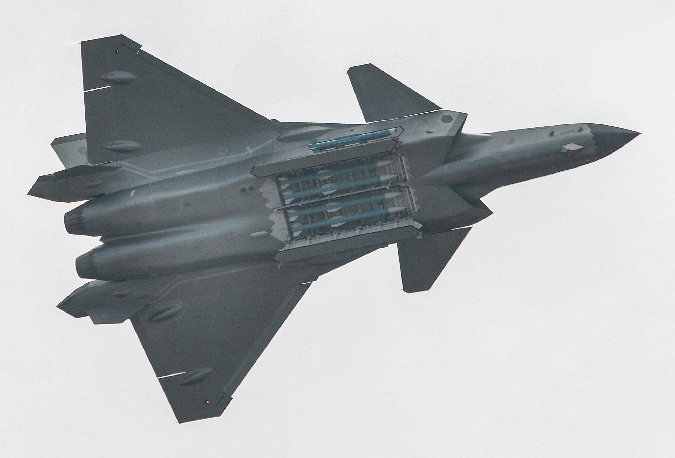 The latest fighter of Chinese Airforce.